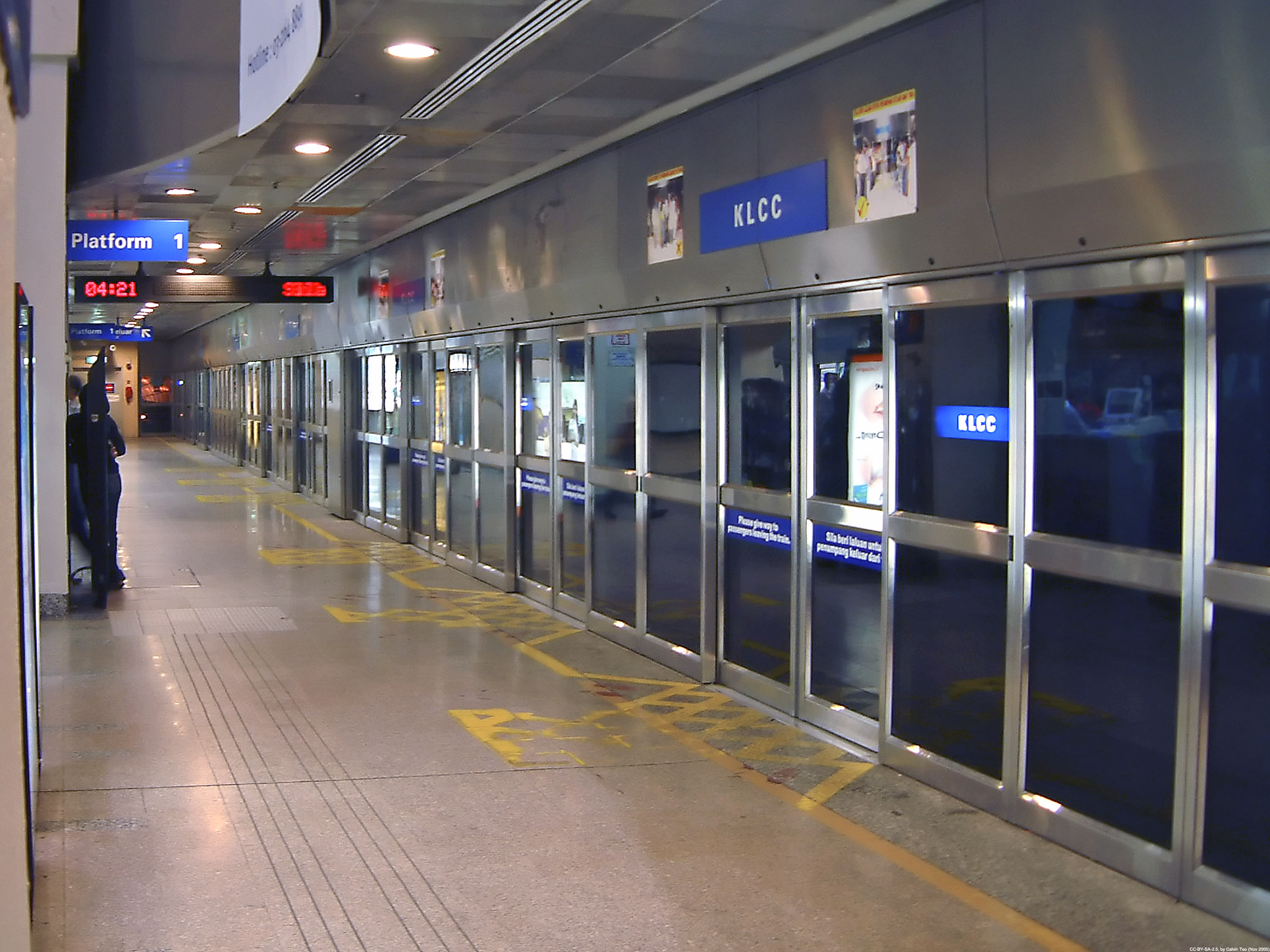 Platform of KLCC Station along the Kelana Jaya Line (Putra LRT) in Kuala Lumpur.